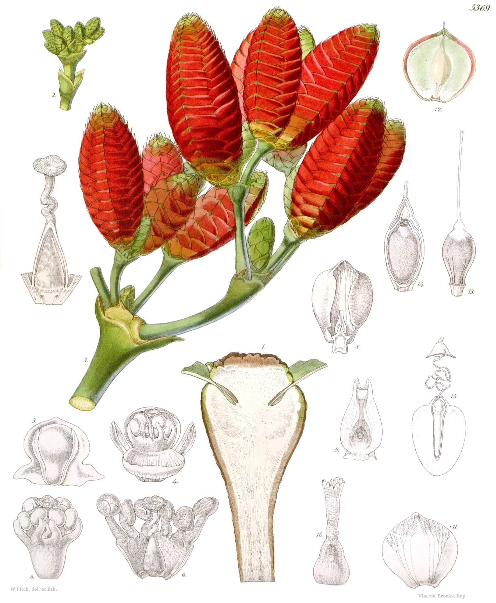 Welwitschia_mirabilis, Plate 5369 from vol89 (1863) Curtis's Botanical Magazine